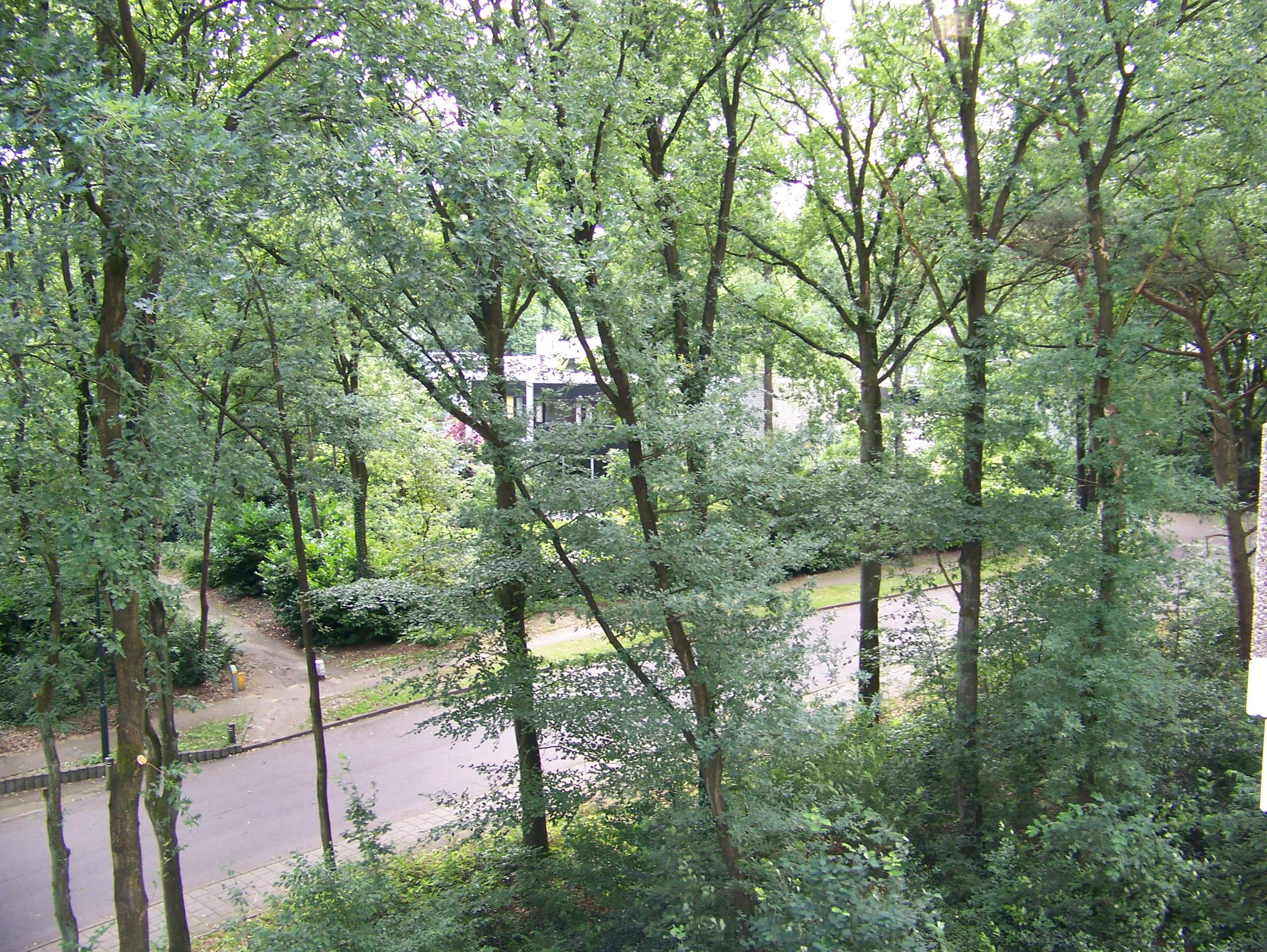 Architecture of Doorwerth (the Netherlands): integration of human buildings with forest.